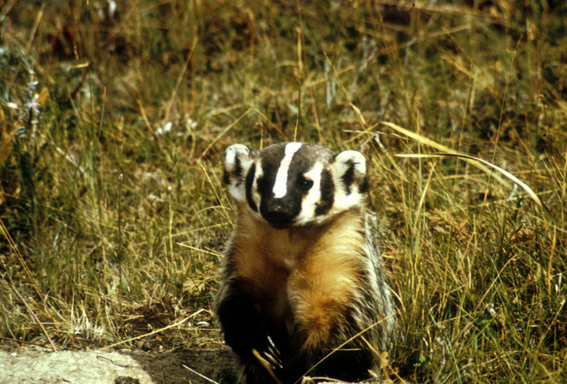 Badger Uploaded in German WP by Benutzer:Baldhur 20:41, 5. Nov 2003